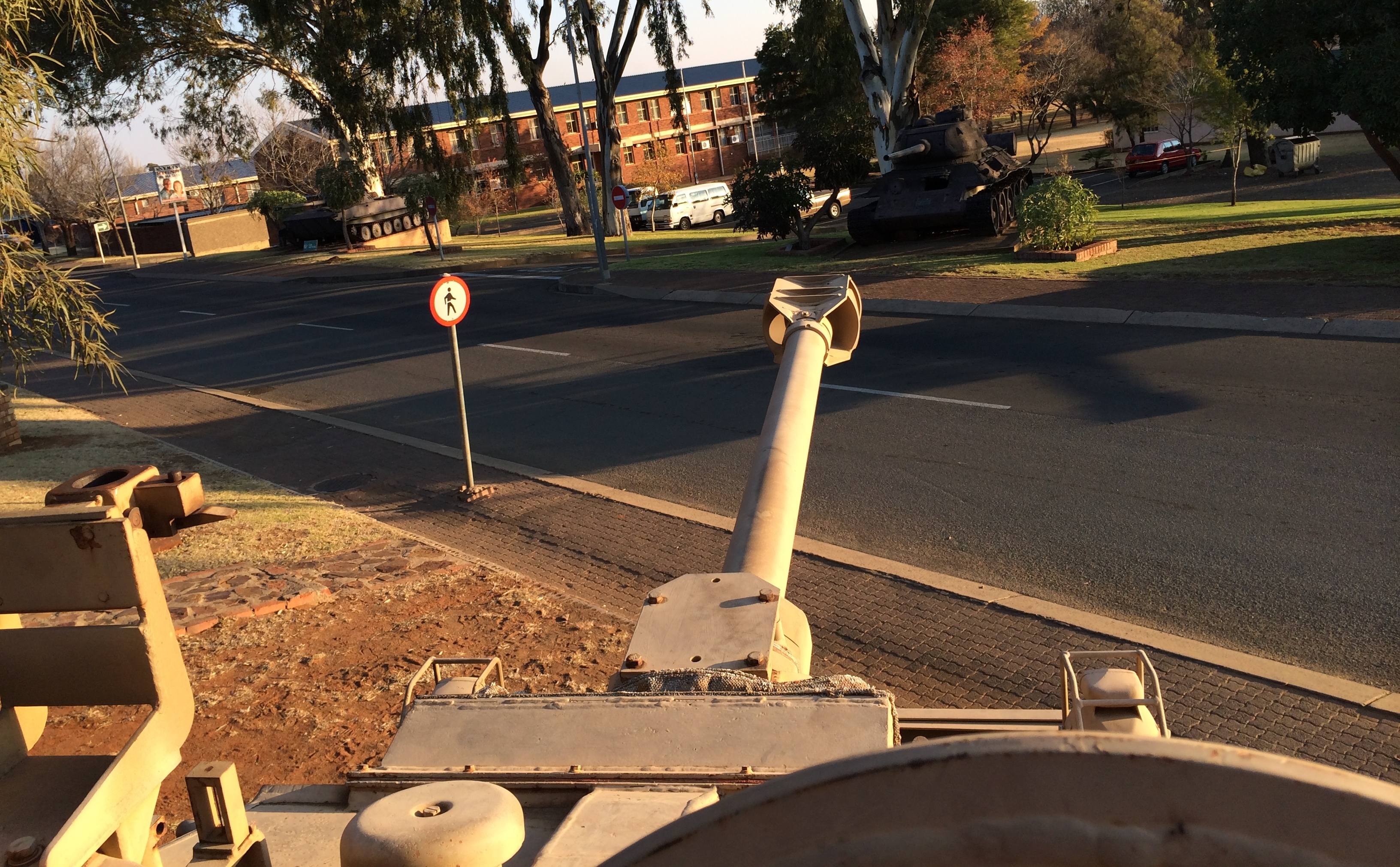 Description: View from the gunner's hatch of an armored car turret at 1 Tank Regiment, Bloemfontein. Subject is an Eland-90 Mk7, by Armscor of South Africa. The vehicle in the immediate background is an Angolan T-34-85.